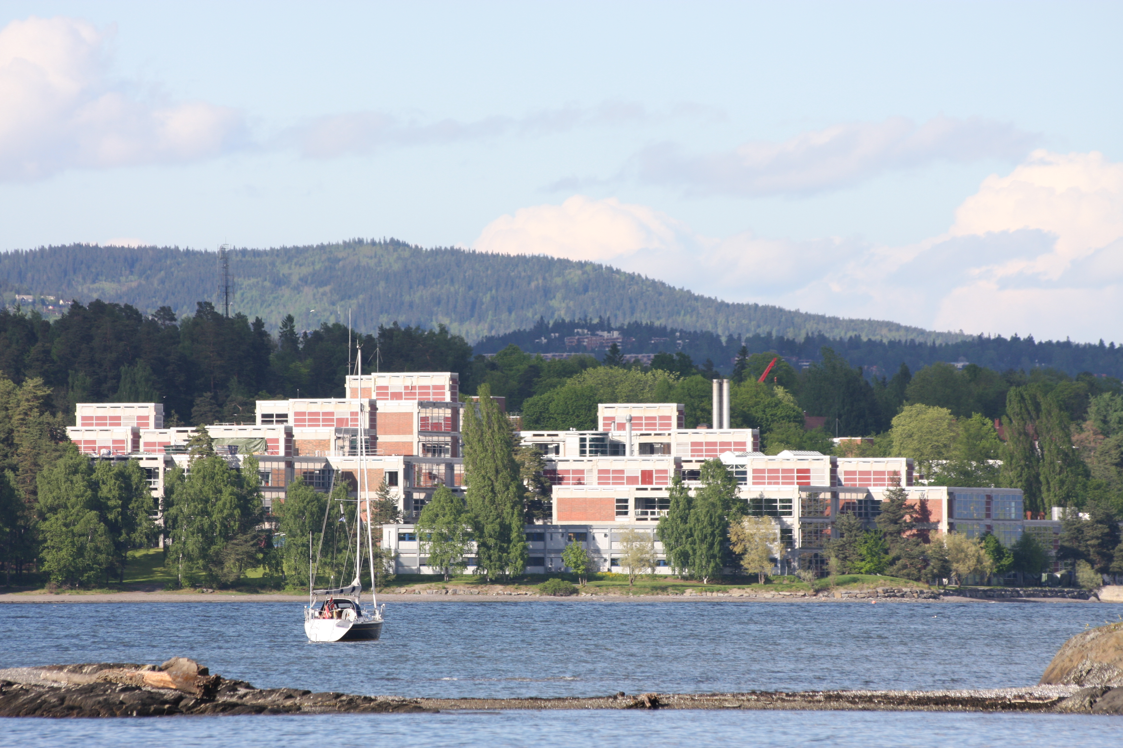 Det Norske Veritas, headquarters at Hövik near Oslo, Norway.